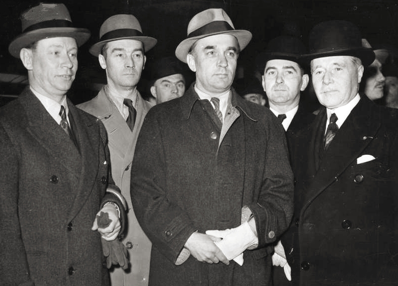 Polish Minister of War Affairs gen.Tadeusz Kasprzycki (in center) inviting in Paris by French CiC gen. Maurice Gamelin (right). The Ambassador of the Republic of Poland to France Juliusz Łukasiewicz is present on the left. An official visit of Polish militaries in France to coordinate military efforts towards Nazi Germany on the eve of World War II.